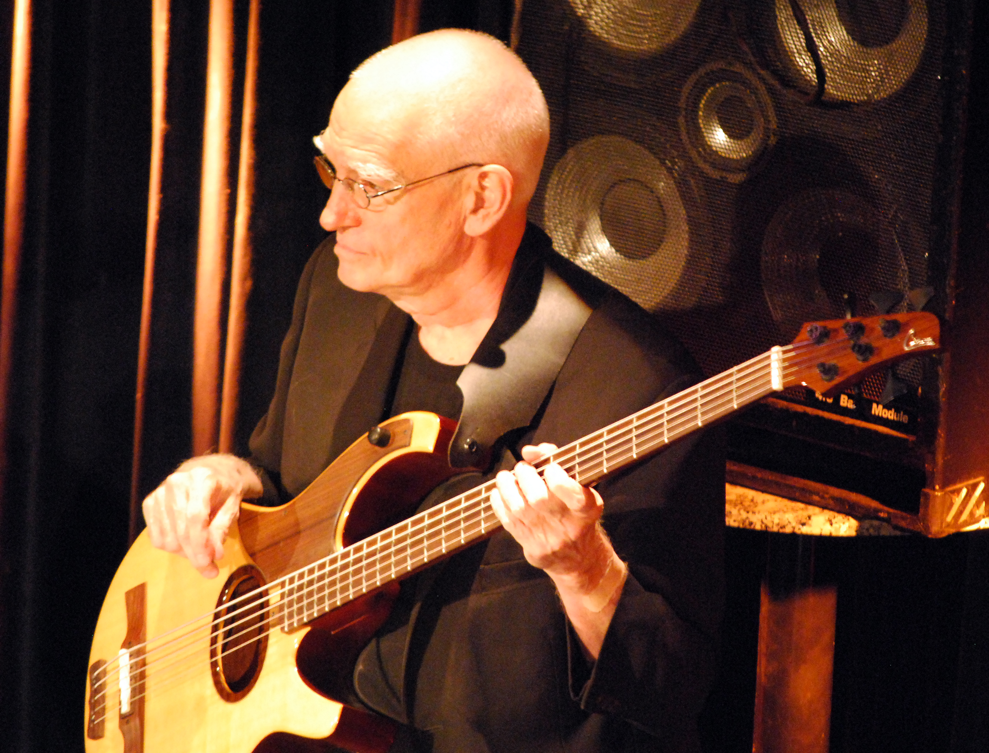 Steve Swallow, Treibhaus Innsbruck, 2009 at a concert with carla Bley